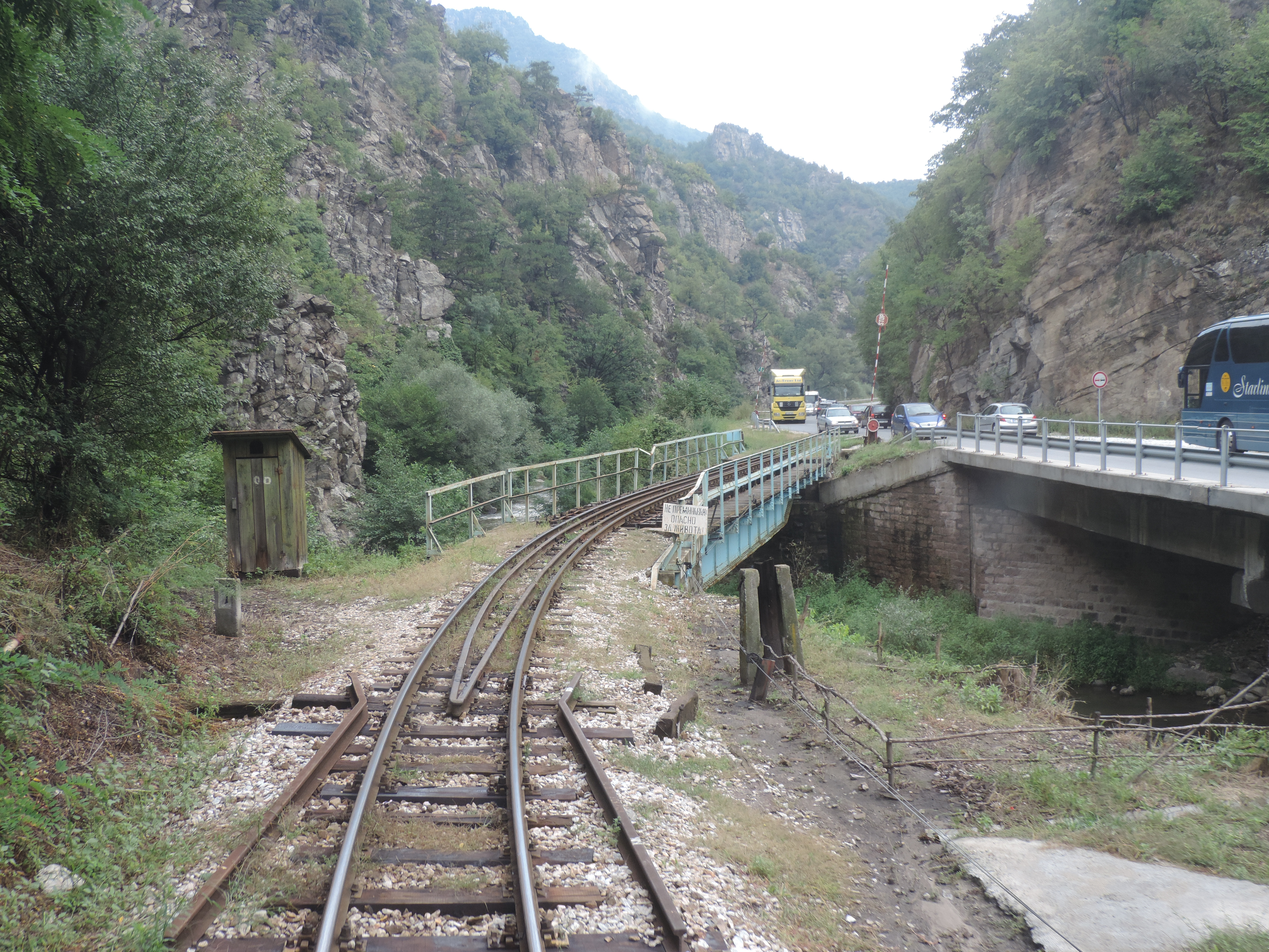 Narrow-gauge railway Septemvri-Dobrinishte, Bulgaria